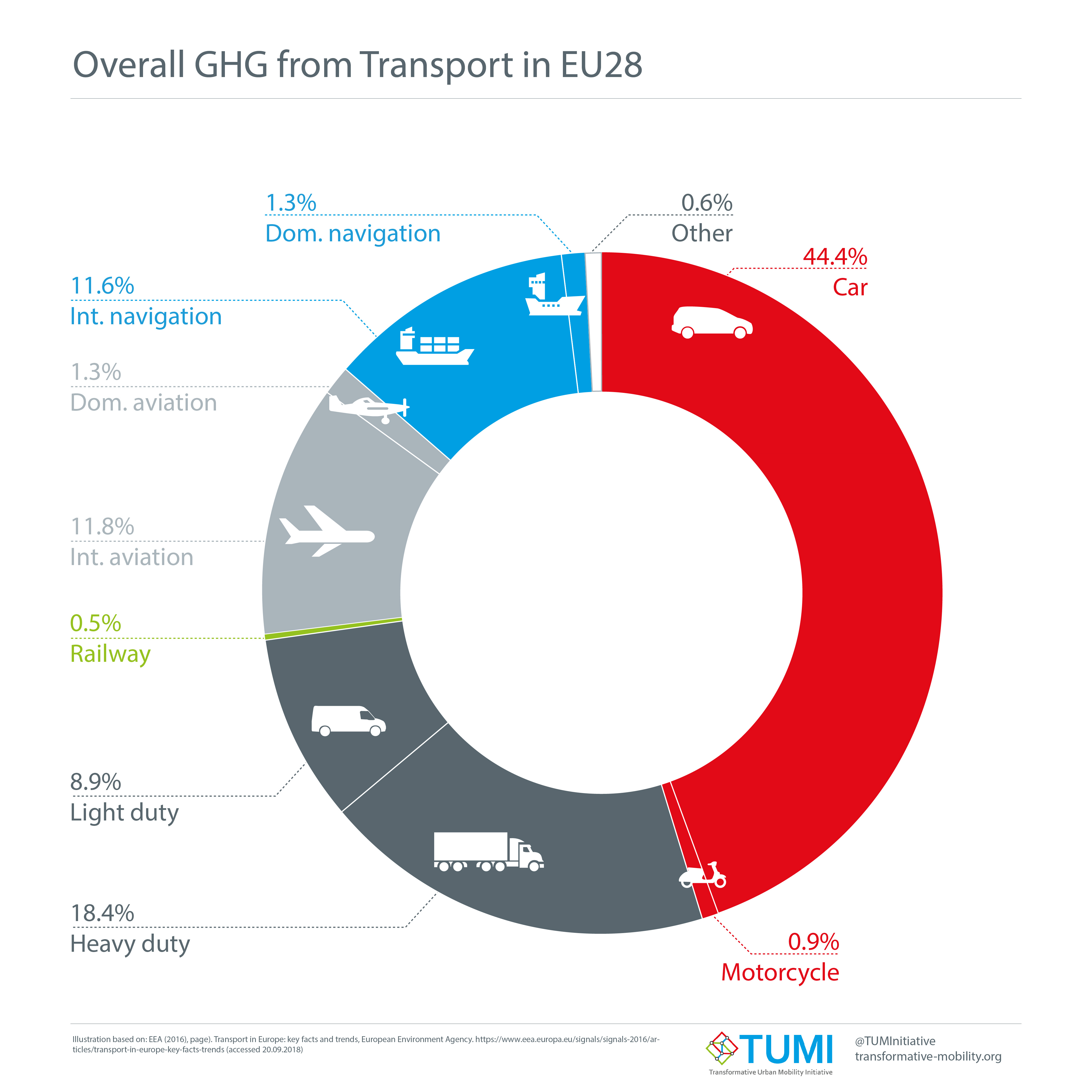 Overall GHG from Transport Car Motorcycle Heavy Duty Light Duty Railway International Aviation Domestic Aviation International Navigation Dom. Navigation Other Greenhousegas Emissions (incl CO2, ...) Transformative Urban Mobility Initiative (TUMI)